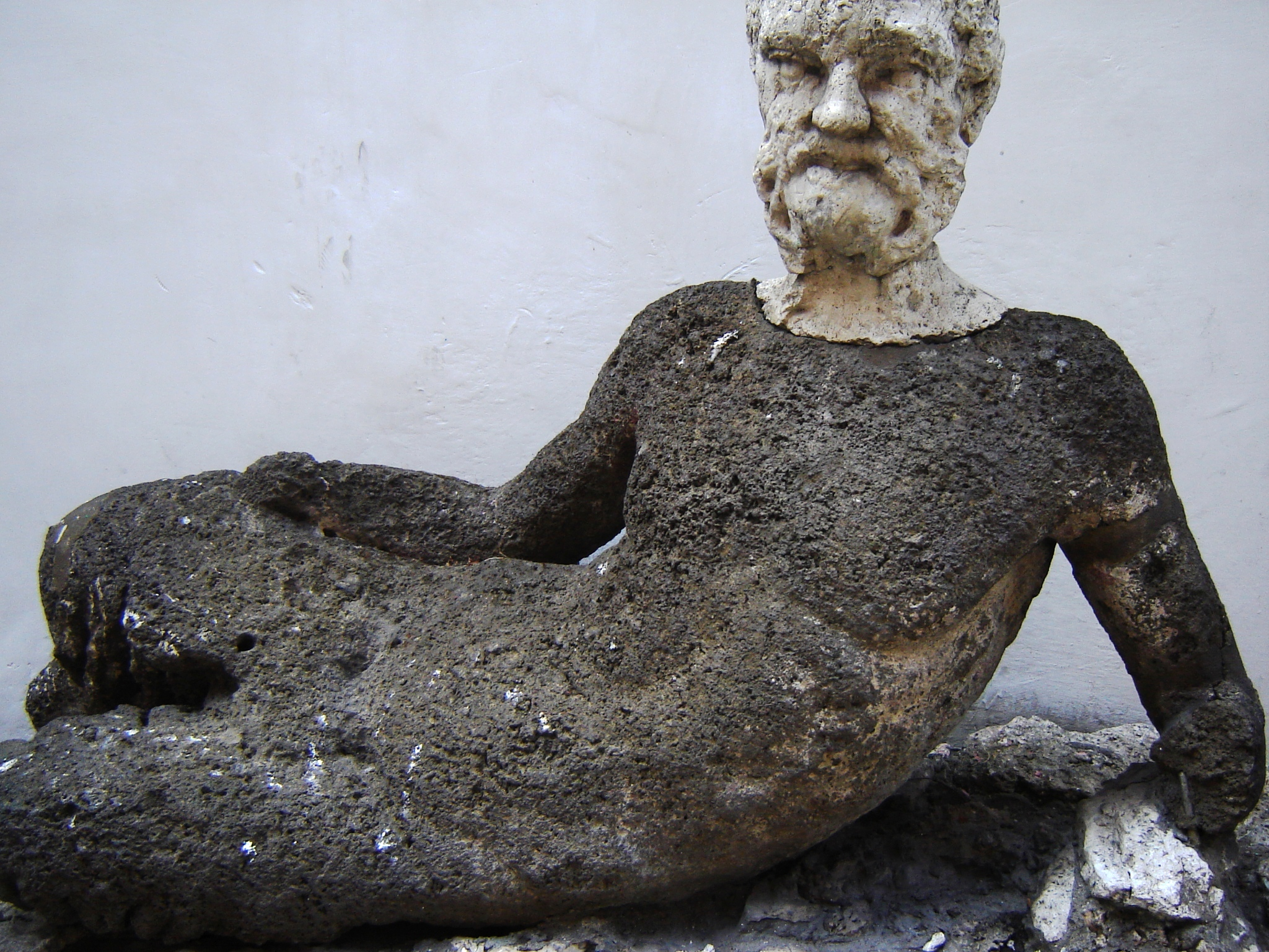 Detail of the Babuino fountain in Rome. Guide books claim the figure represents a baboon (babuino) and gave the name to the street - but it is clearly human. This photo was taken in 2007: the earlier extensive graffiti has been completely removed.